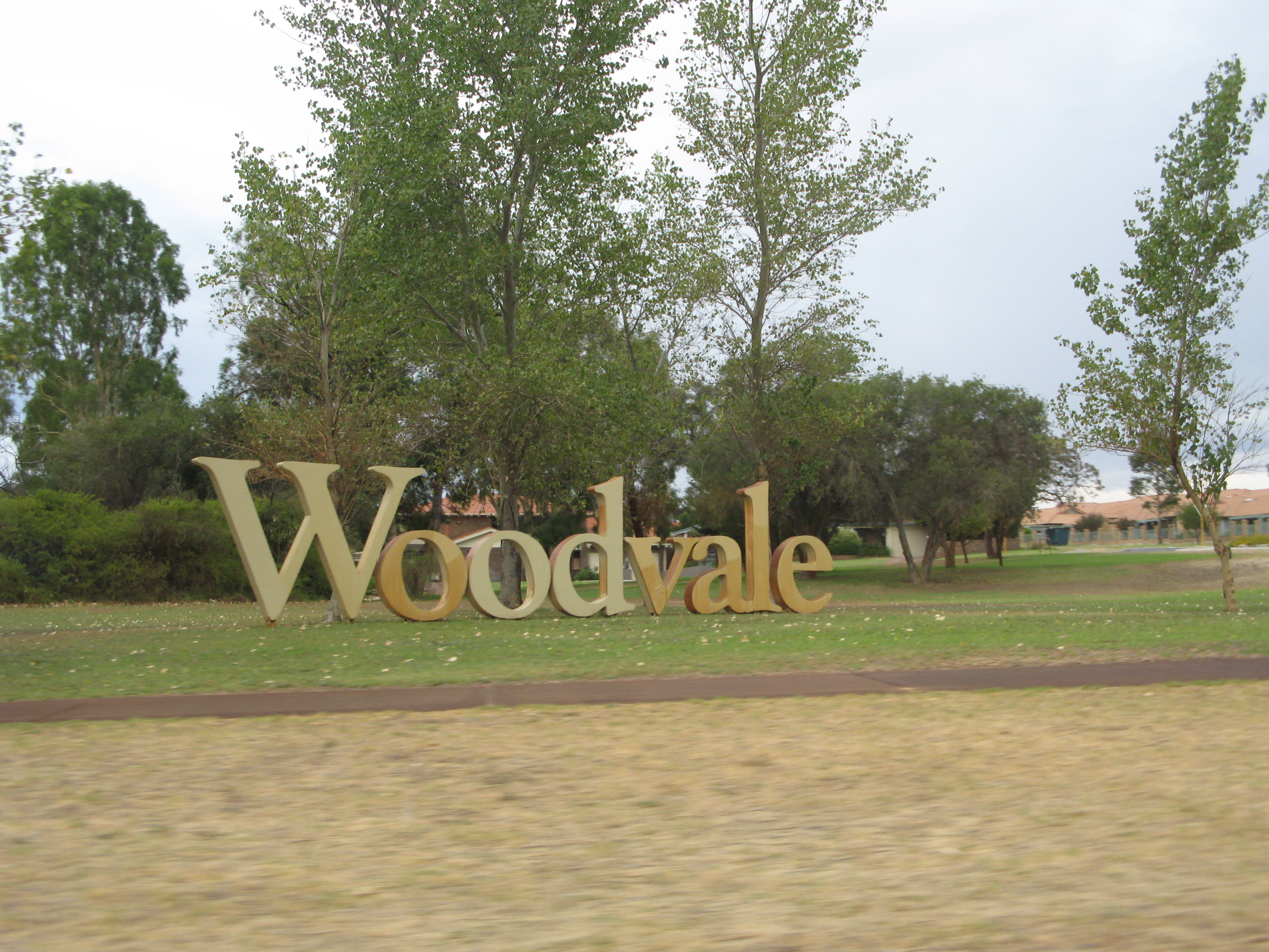 The sign to the first release housing estate in Woodvale. Photo taken by Nick carson in March 2010.